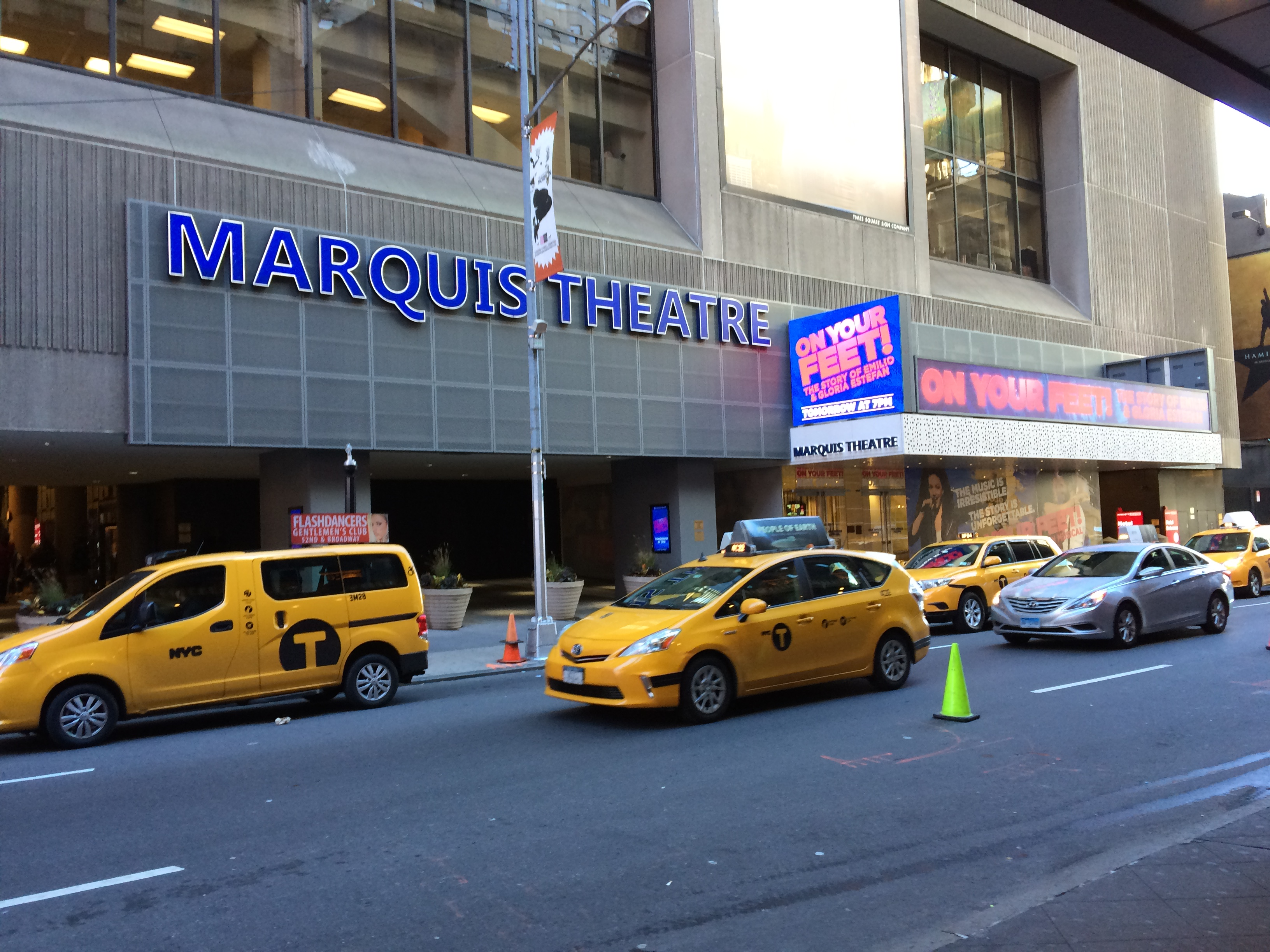 An image of the marquee of the Marquis Theatre as seen from across W 46th St in Manhattan taken October 31, 2016 during the day.